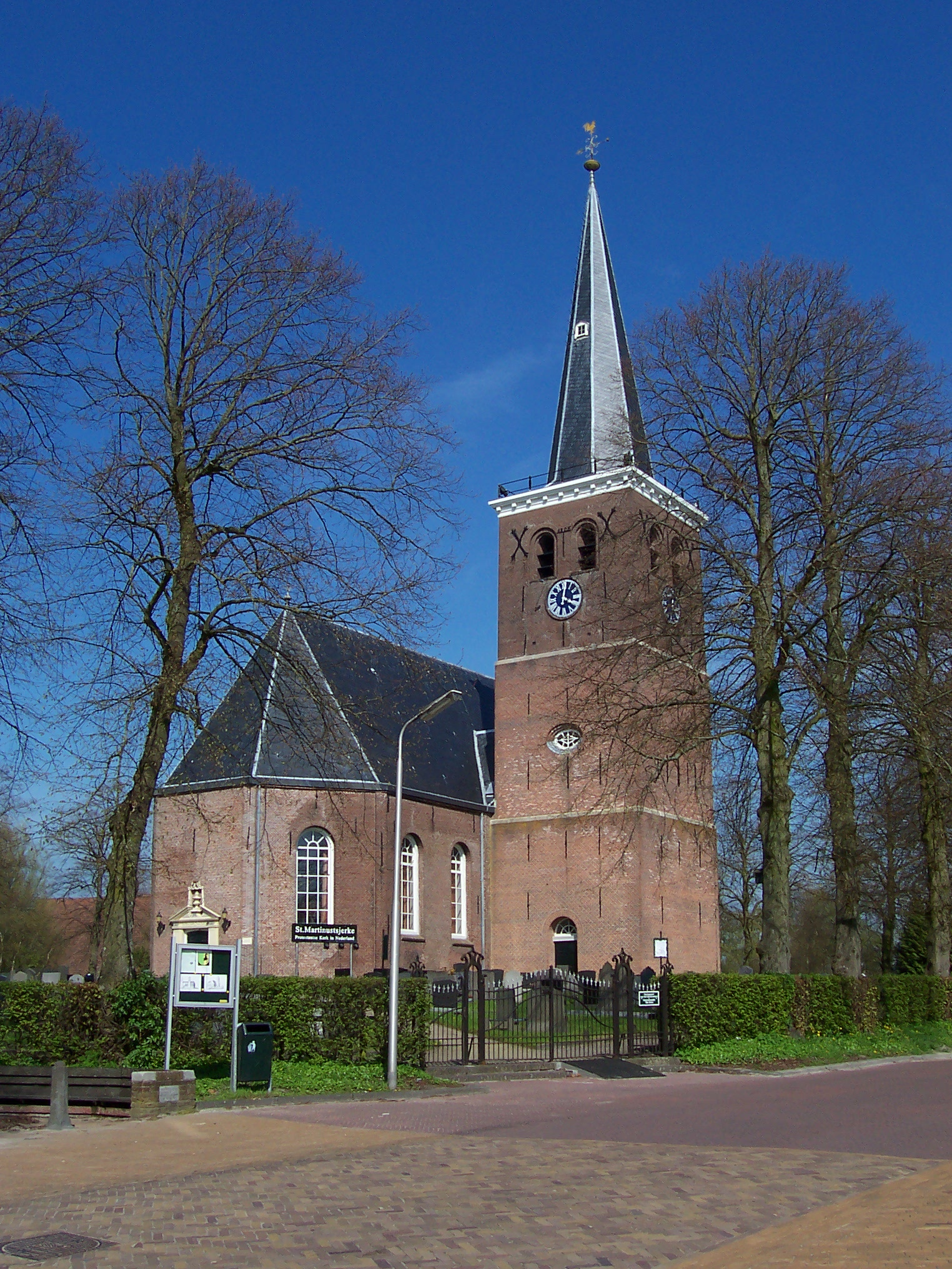 Wirdum (Friesland, the Netherlands), Saint Martin's ChurchFrysk: Wurdum, Sint-Martinustsjerke